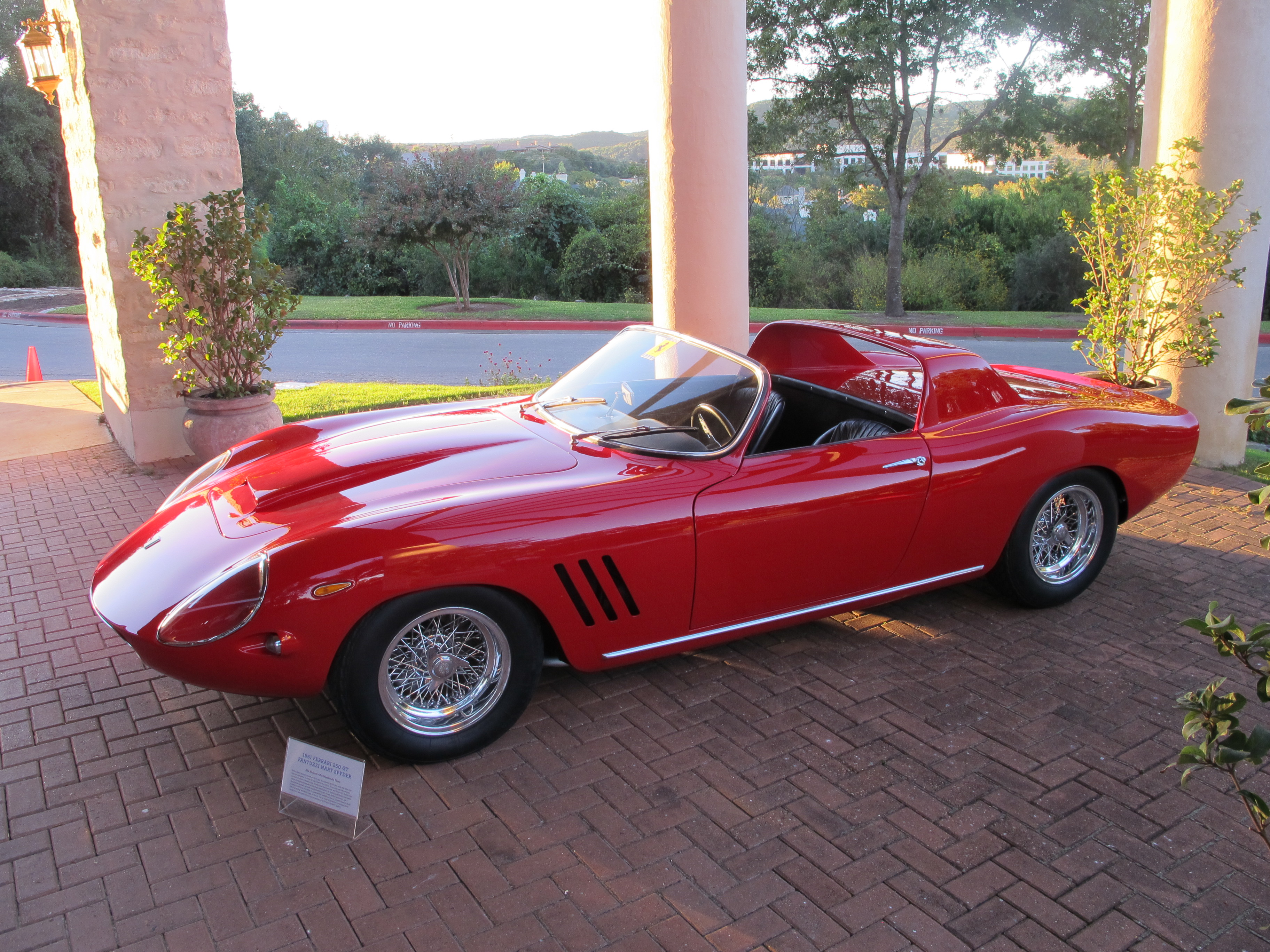 1961 Ferrari 250 GT Fantuzzi NART Spyder (replika). Originally a 1961 250 GTE 2+2 chassis #2236GT, sold new to Luigi Chinetti. Rebodied by Fantuzzi in 1965 after accident into current look. Sold in 2014 for over USD 1 million.[1]